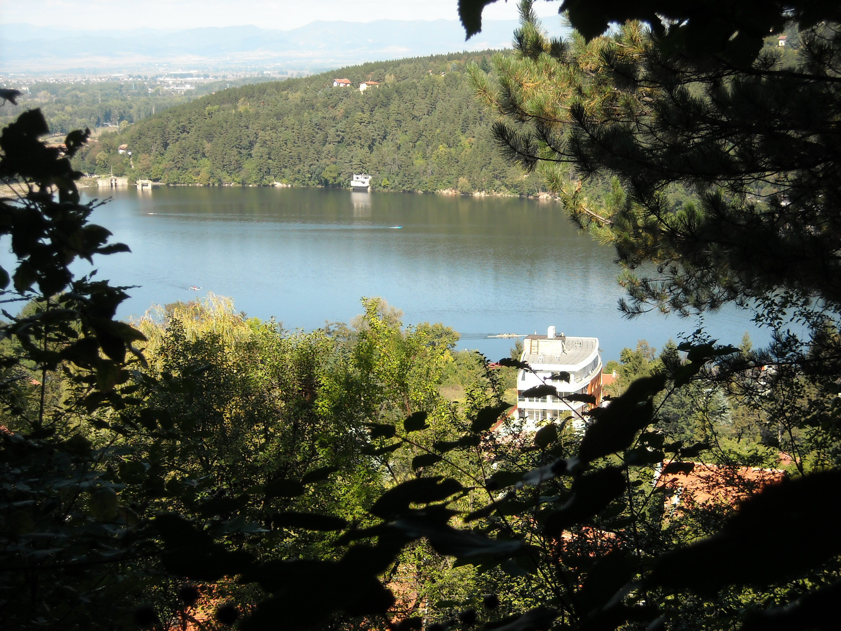 View at Pancharevo Lake from the Vitosha hills